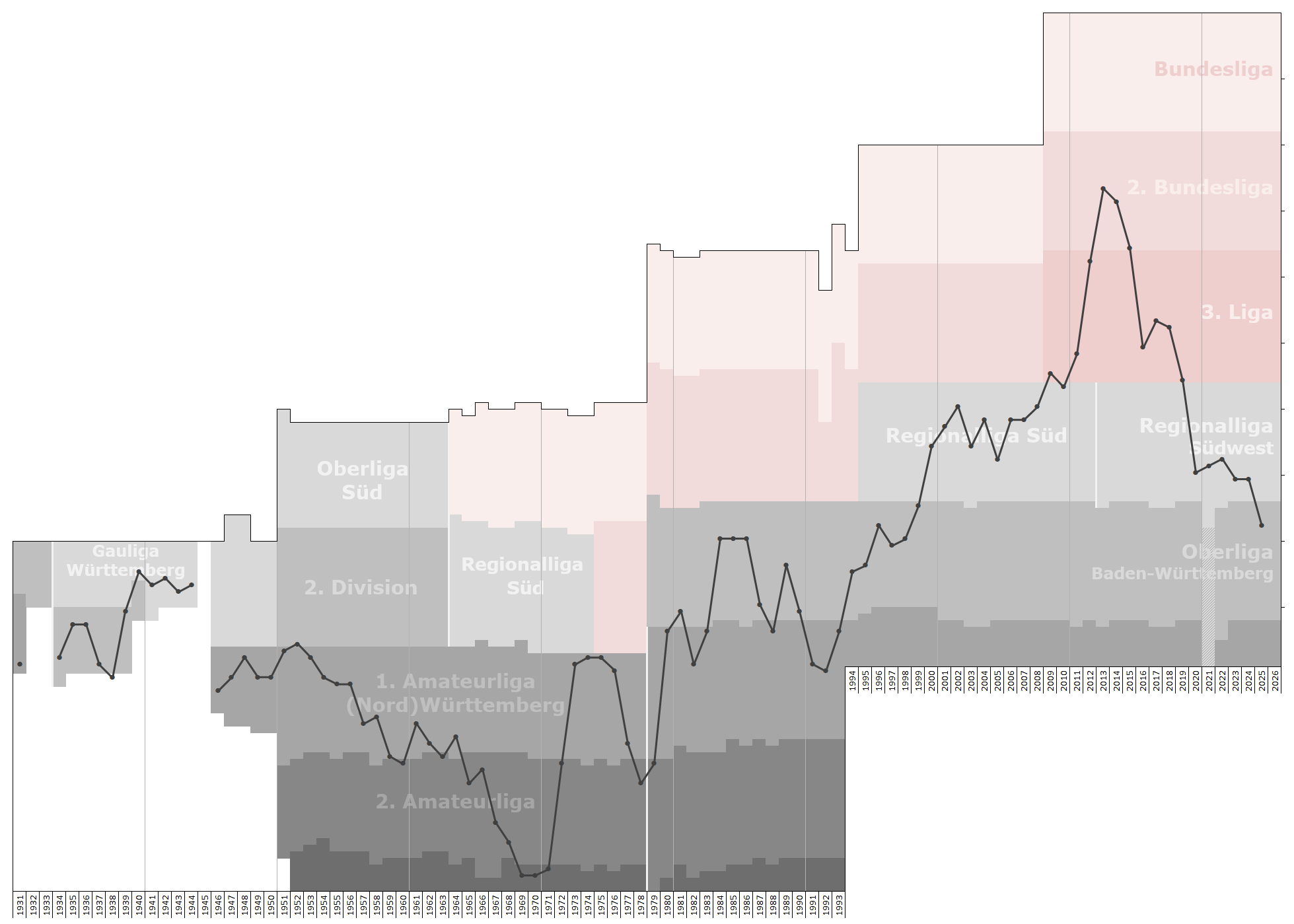 Chart of end-season table positions of VfR Aalen in the football league system of Germany. Data source: RSSSF, wikipedia, f-archiv.de, fussball.de